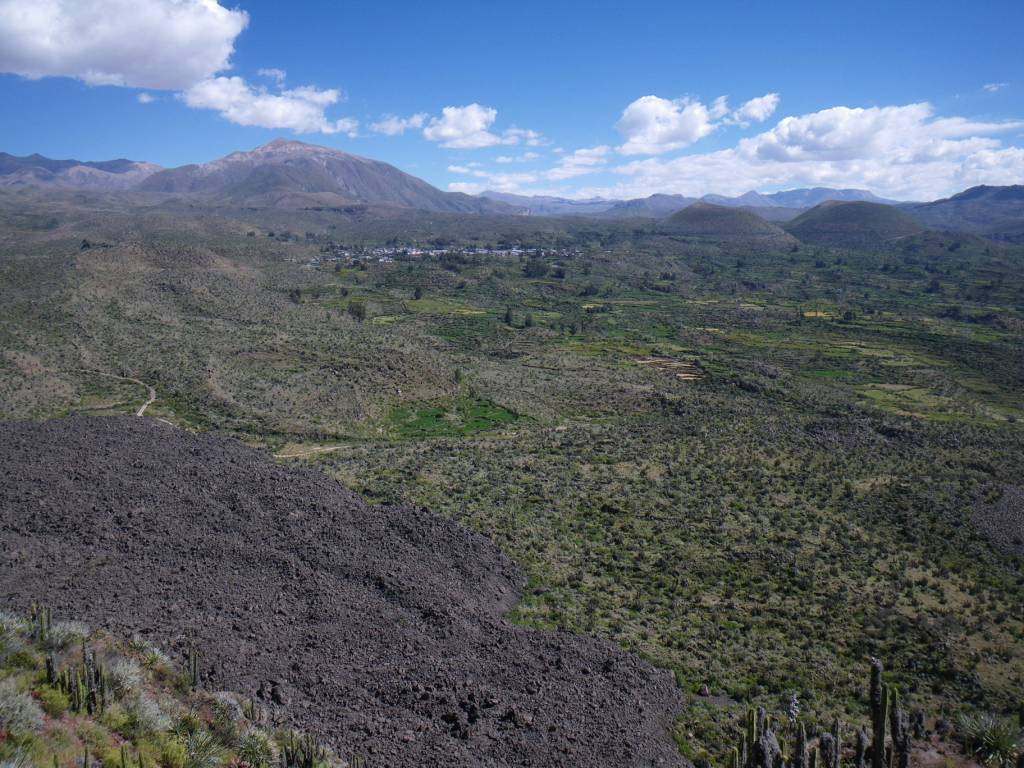 Valley of the Volcanoes and the town of Andagua from Mirador Antaymarca